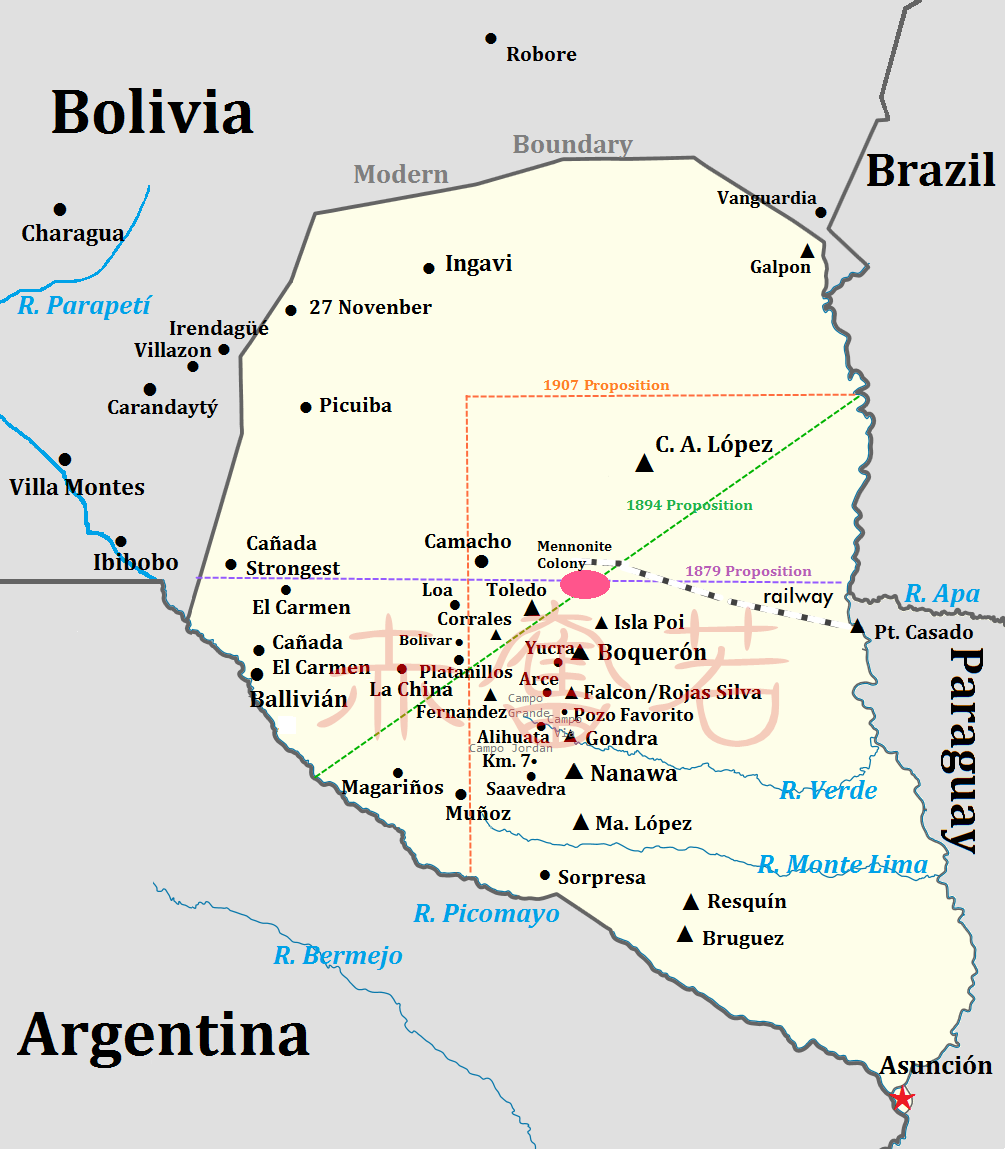 Map of Chaco War. The forts, outposts, cities of Paraguay and Bolivia.